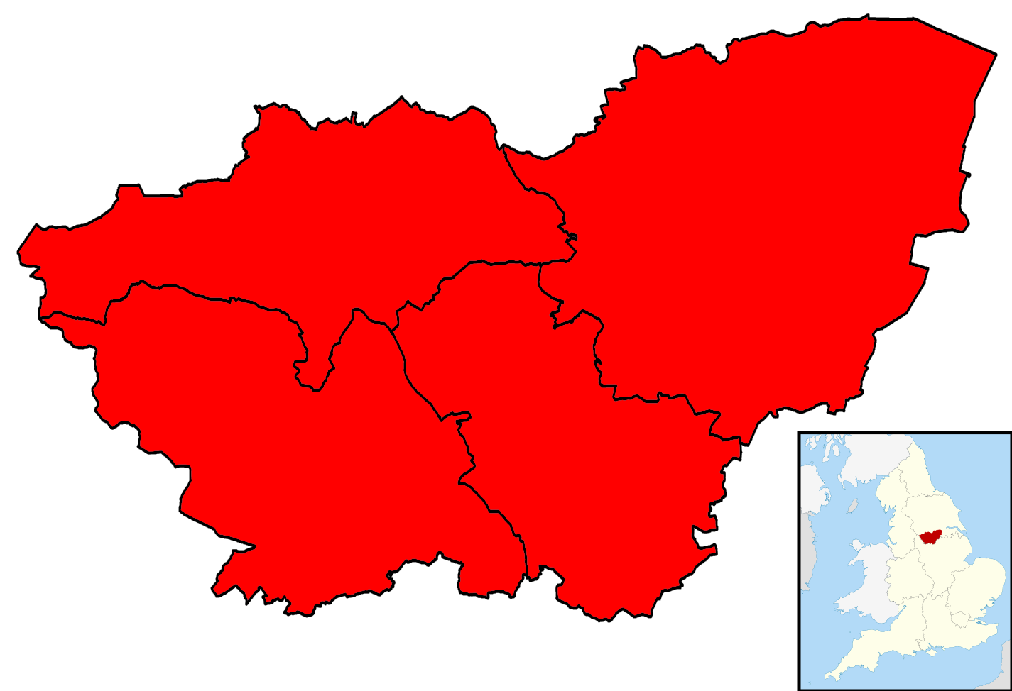 A map of electoral districts in the South Yorkshire County Council election of 197, 1977 and 1981.